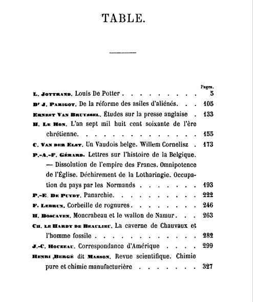 Table of contents of Revue trmestrielle, published July 1860